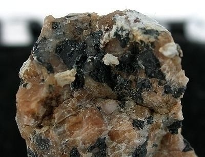 Hauckite, Pyrochroite Locality: Sterling Mine, Sterling Hill, Ogdensburg, Franklin Mining District, Sussex County, New Jersey, USA (Locality at ) Size: 2.6 x 1.7 x 1.1 cm. A rare validated specimen of the extremely rare mineral species named after Franklin area collector Richard Hauck, consisting of several eye-visible microcrystal clusters on contrasting matrix (pale whitish color), with minor Pyrochroite (Black) in association . Almost seventy new mineral species have been described from the unique Franklin area, and this is one that remains unique to Sterling Hill, to my knowledge.